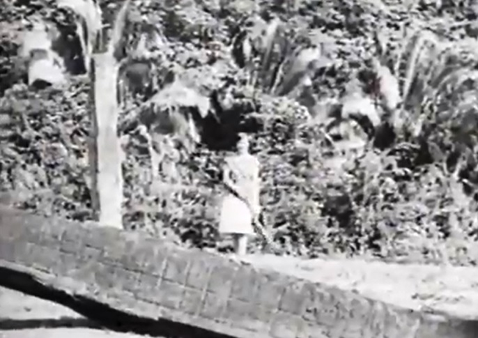 Argetinian poet and reciter Berta Singerman on top of a monument during a visit to Quirigua, Guatemala. 1920